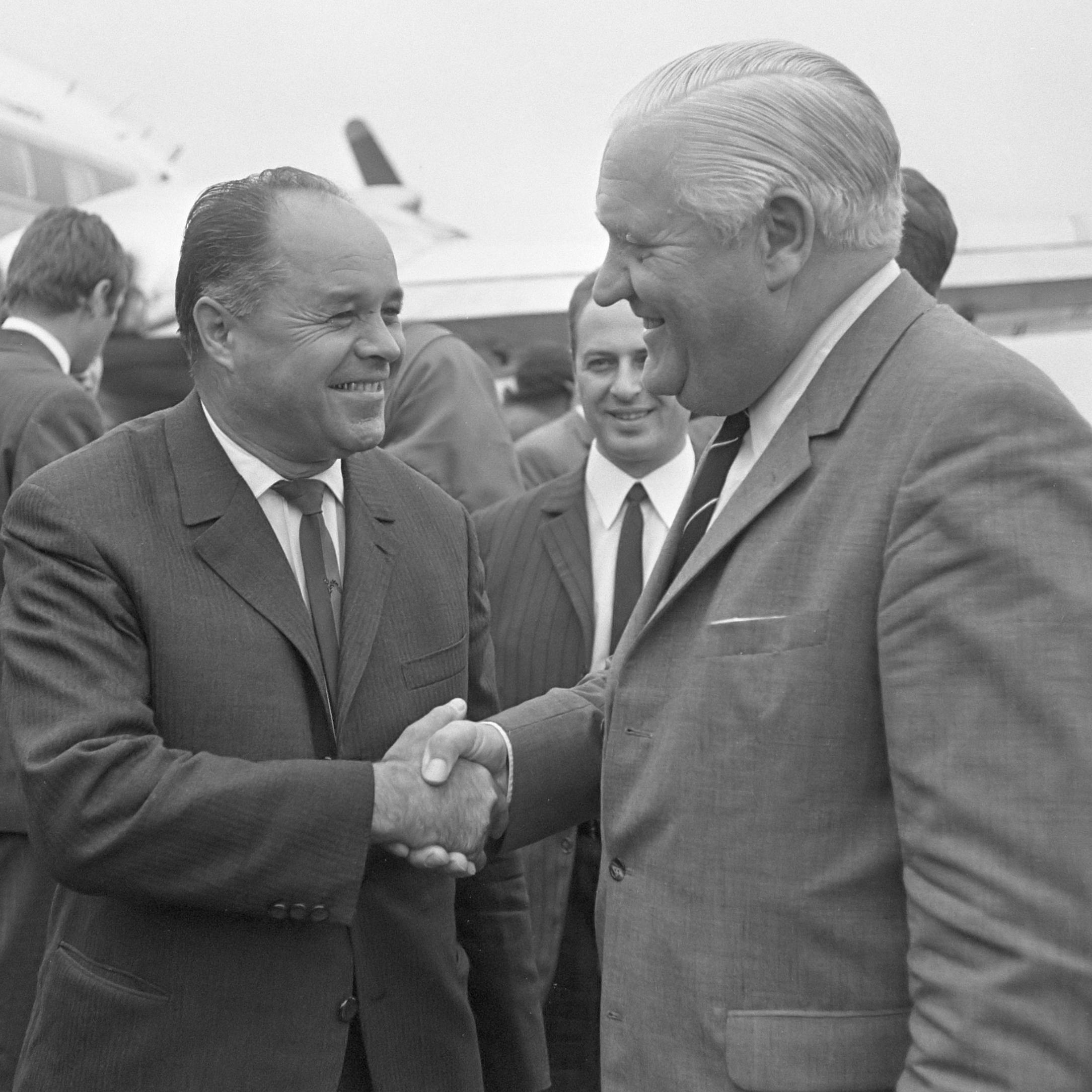 Roemeens elftal Ut Arad arriveert op Zestienhoven voor wedstrijd tegen Feijenoord om Europacup I ; links trainer Nicolae Dumitrescu , rechts 14 september 1970